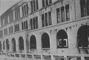 Honkawa Primary and Higher Primary School (present-day Honkawa Elementary School Peace Museum) after the atomic bomb.